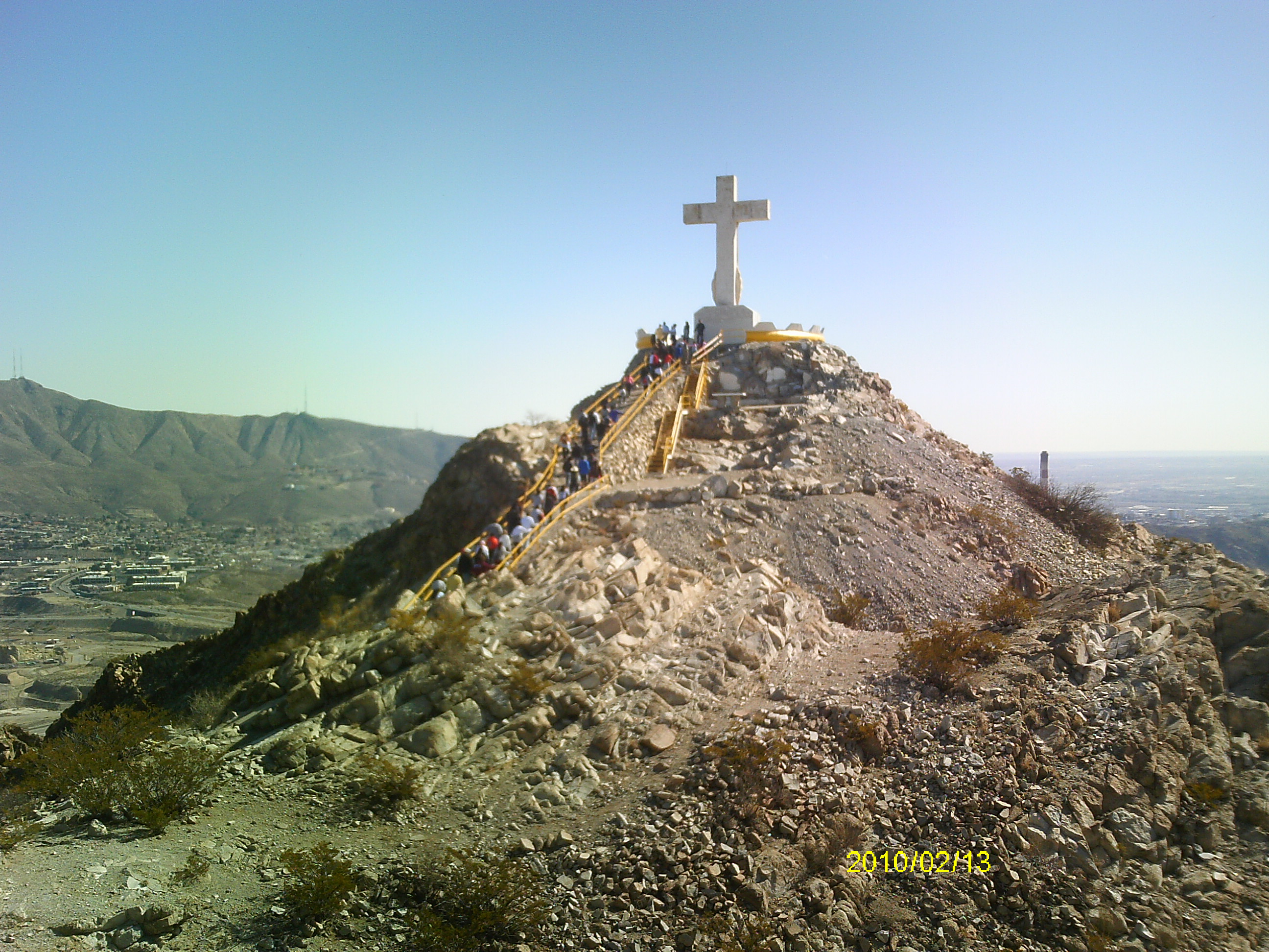 A view of the back of the cross at the top of Mount Cristo Rey, Sunland Park, New Mexico with pilgrims heading up to the cross. The mountain is situated on the United States/Mexico border.